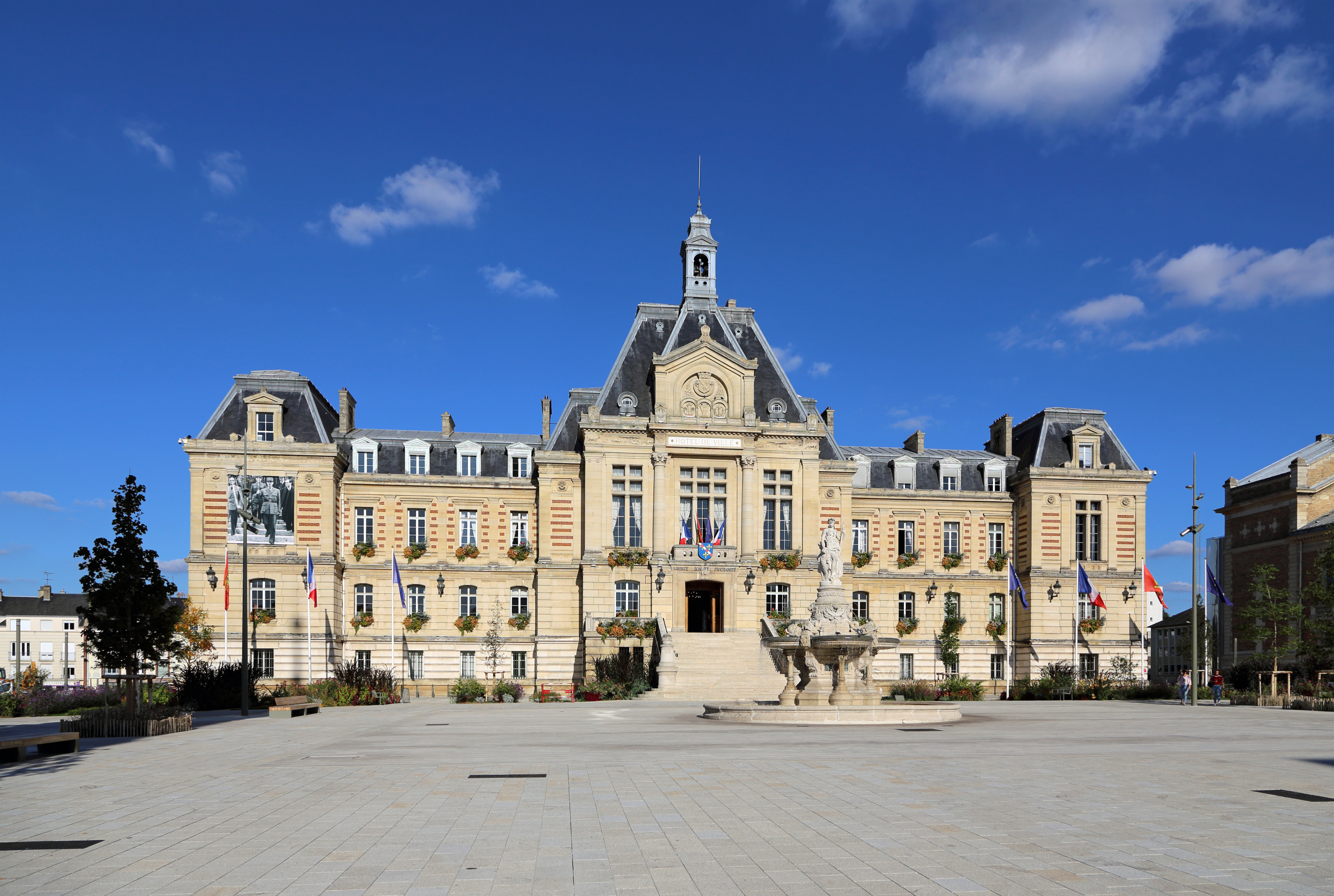 Evreux (Eure department, France): town hall